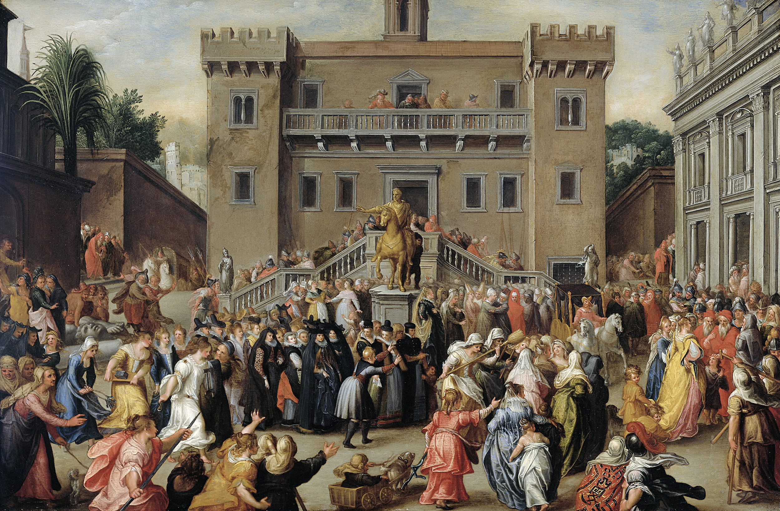 Women from various countries and eras are seen storming the Capitol in ancient Rome in protest against a proposed ruling that would henceforth allow men to have two wives. This rumour had been spread by the young boy Papirius, seen standing at the far right between his mother (in yellow) and several senators (in red).